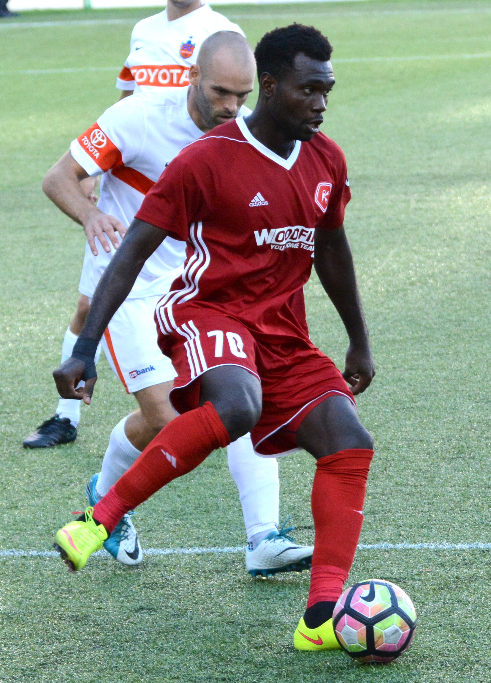 Taken during a USL regular season match between FC Cincinnati and Richmond Kickers at Nippert Stadium in Cincinnati, USA on July 9, 2017.